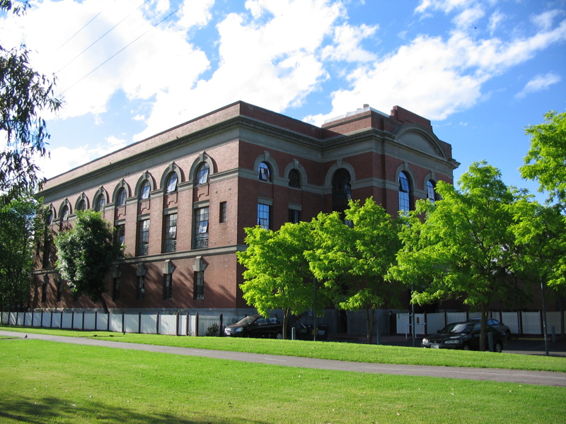 North Fitzroy Electric Railway Substation, built in 1915 to power parts of the suburban railway, located along the former Inner Circle Line, in Fitzroy North, Victoria, Australia.